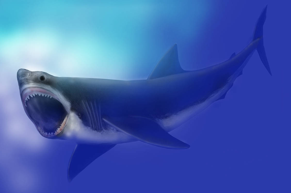 Depiction of Miocene great white shark (C. Megalodon)